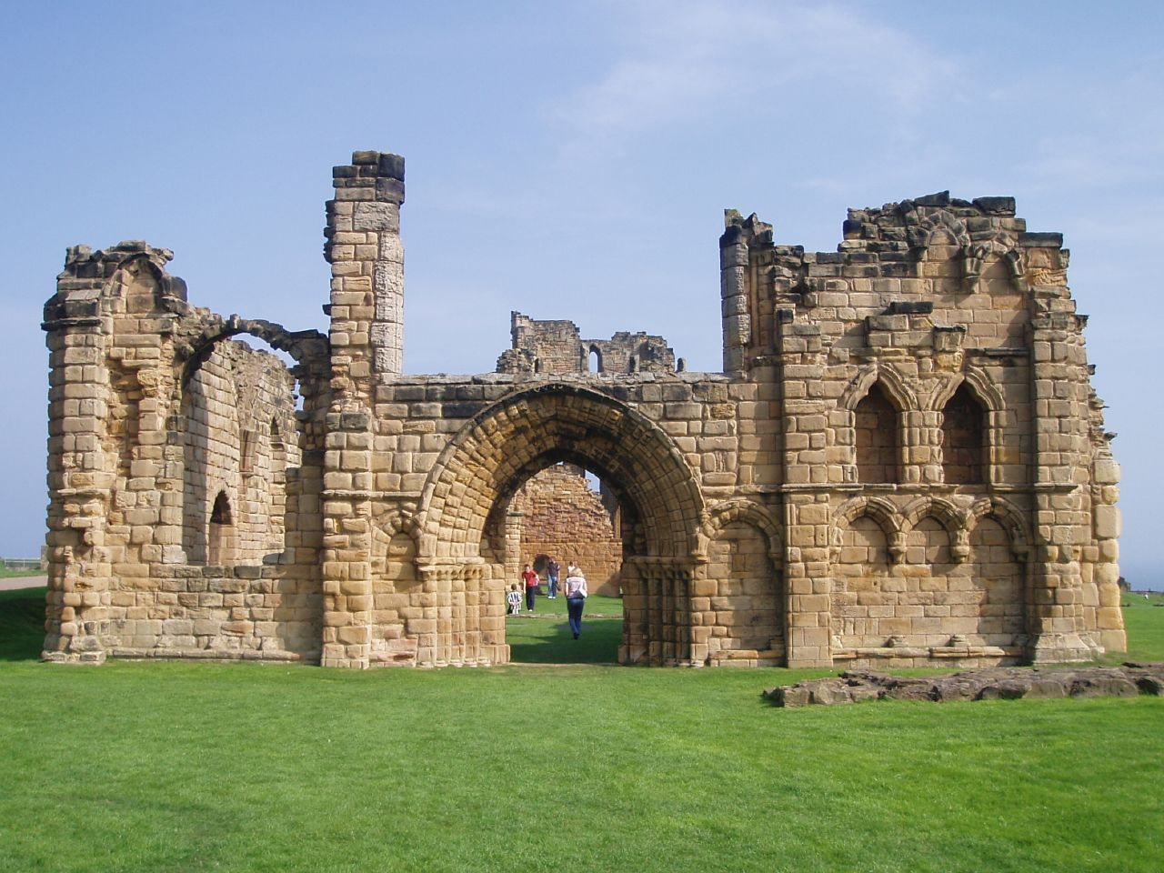 Tynemouth Priory